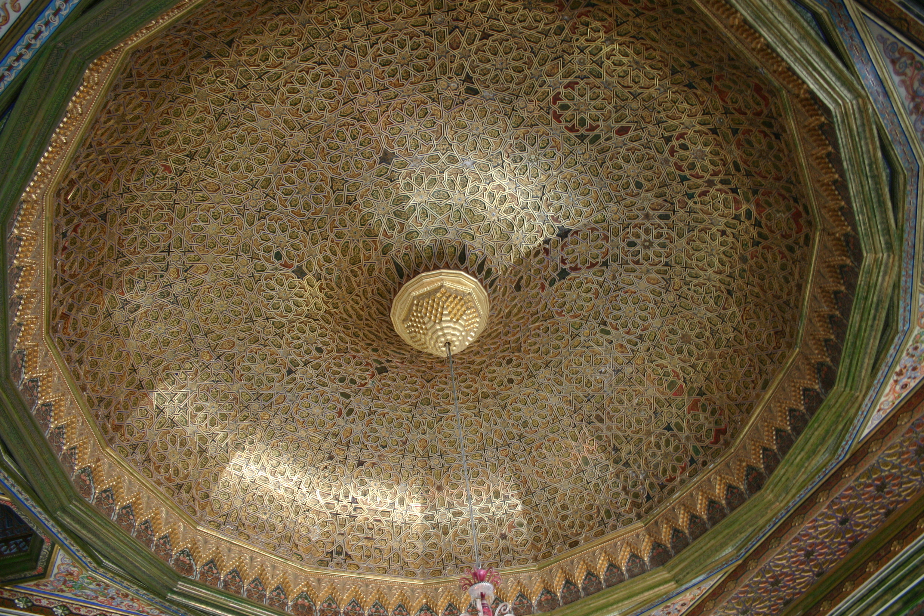 An amazing ceiling in the Bardo Museum Tunis, Tunisia